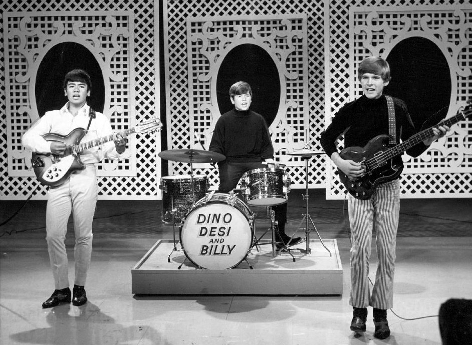 Photo of the musical group Dino, Desi and Billy performing on The Dean Martin Show. From left: Billy Hinsche, Desi Arnaz, Jr. and Dino Martin, Jr.